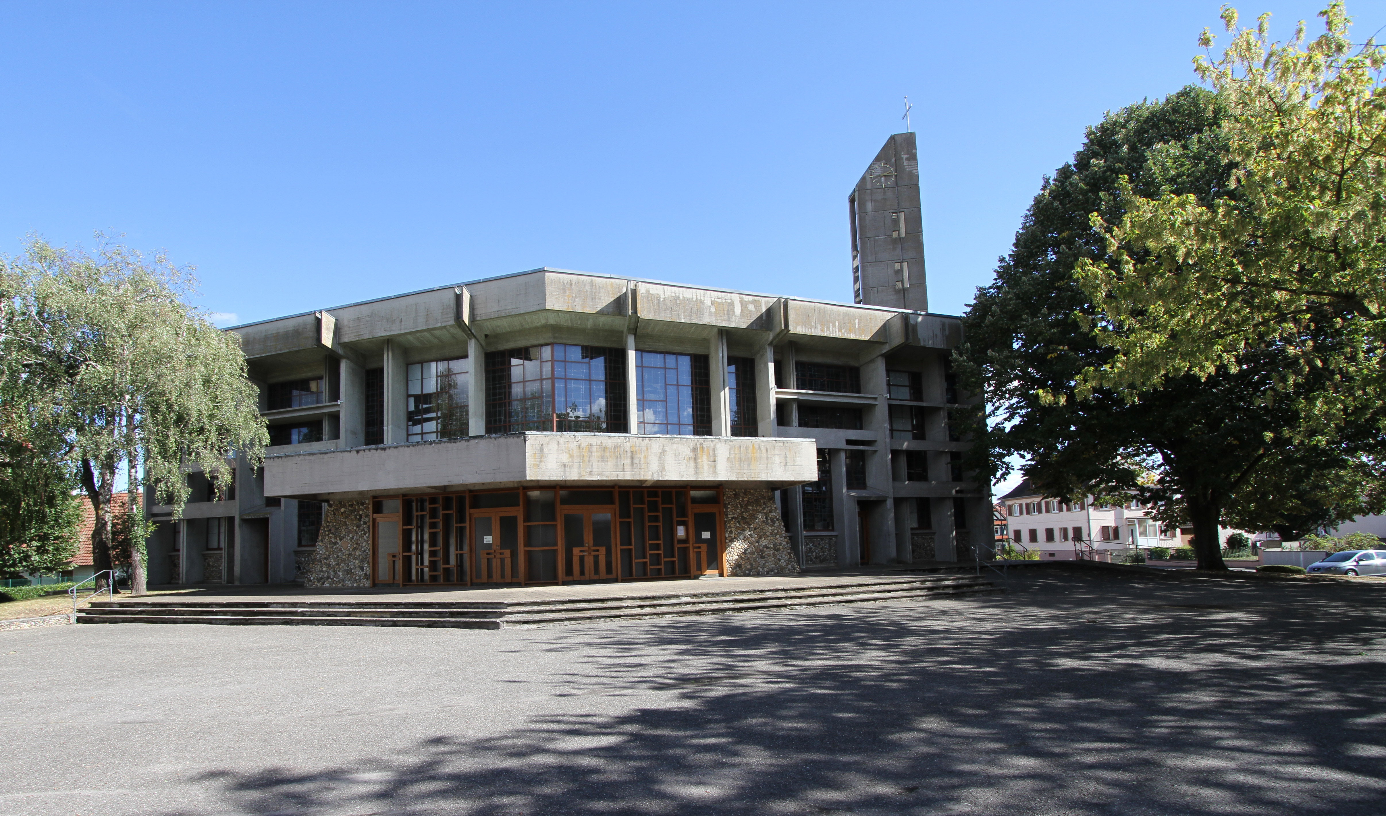 Church of St. Arbogast in Herrlisheim.